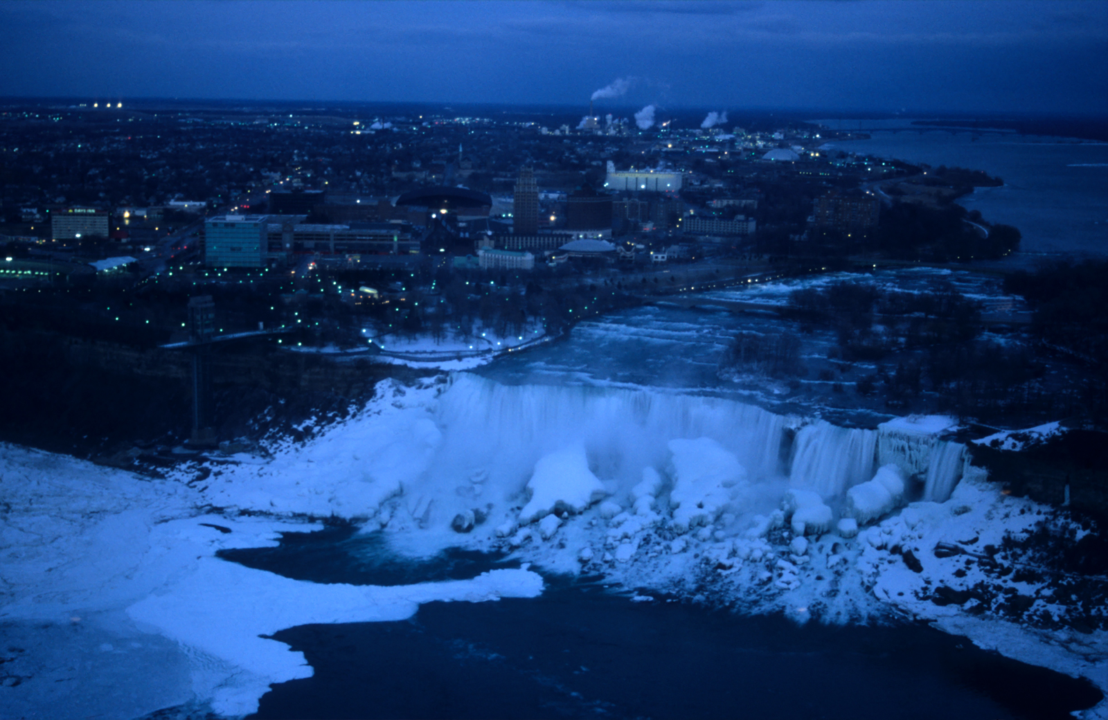 Niagara Falls by night from Skylon tower